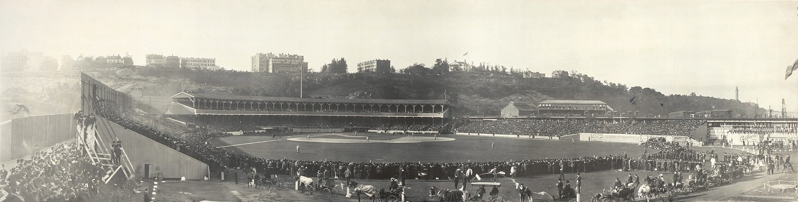 Panorama of Polo Grounds. The Morris-Jumel Mansion is on the upper right on top of Coogan's Bluff. Original title: "Deciding game bet. Nationals & American Leagues B.B."